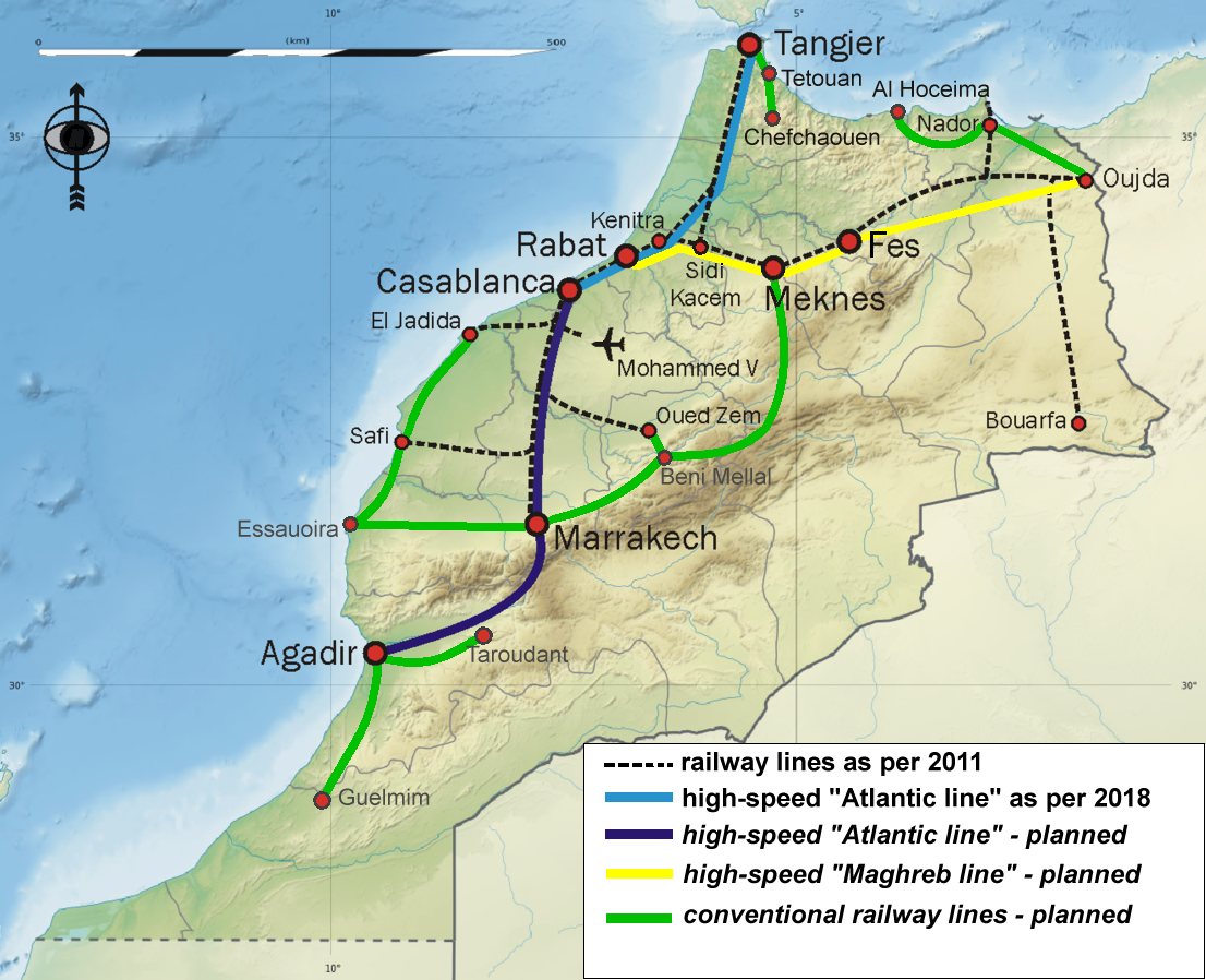 Railways of Morocco as per 2018 including planned extensions as per ONCF; based on Railways Morocco.png